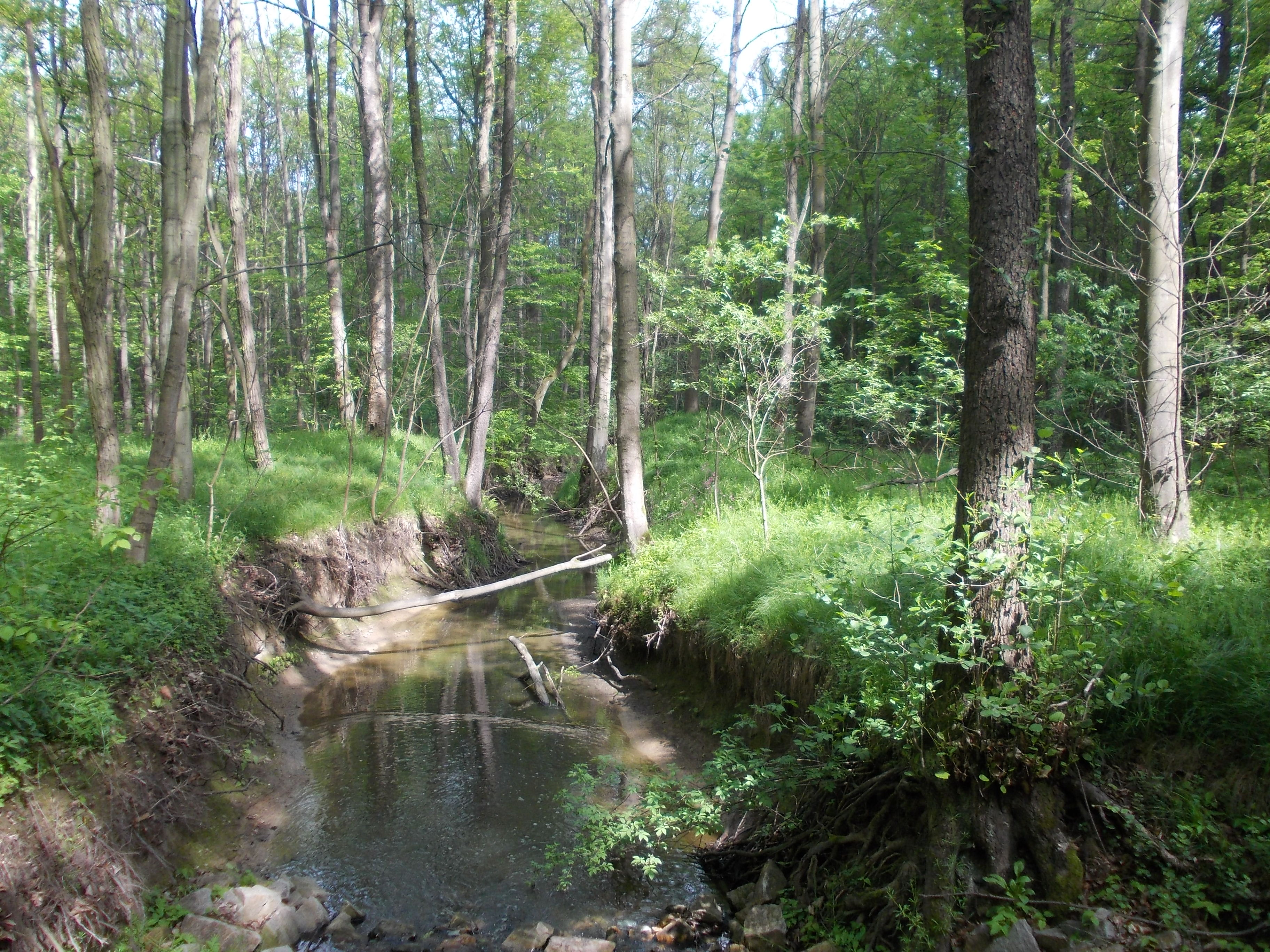 Spannerbach stream in the Leina forest (Altenburger Land district, Thuringia)